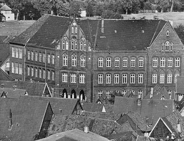 The old building of the school "Hermann-Billung-Gymnasium" in Celle until 1971